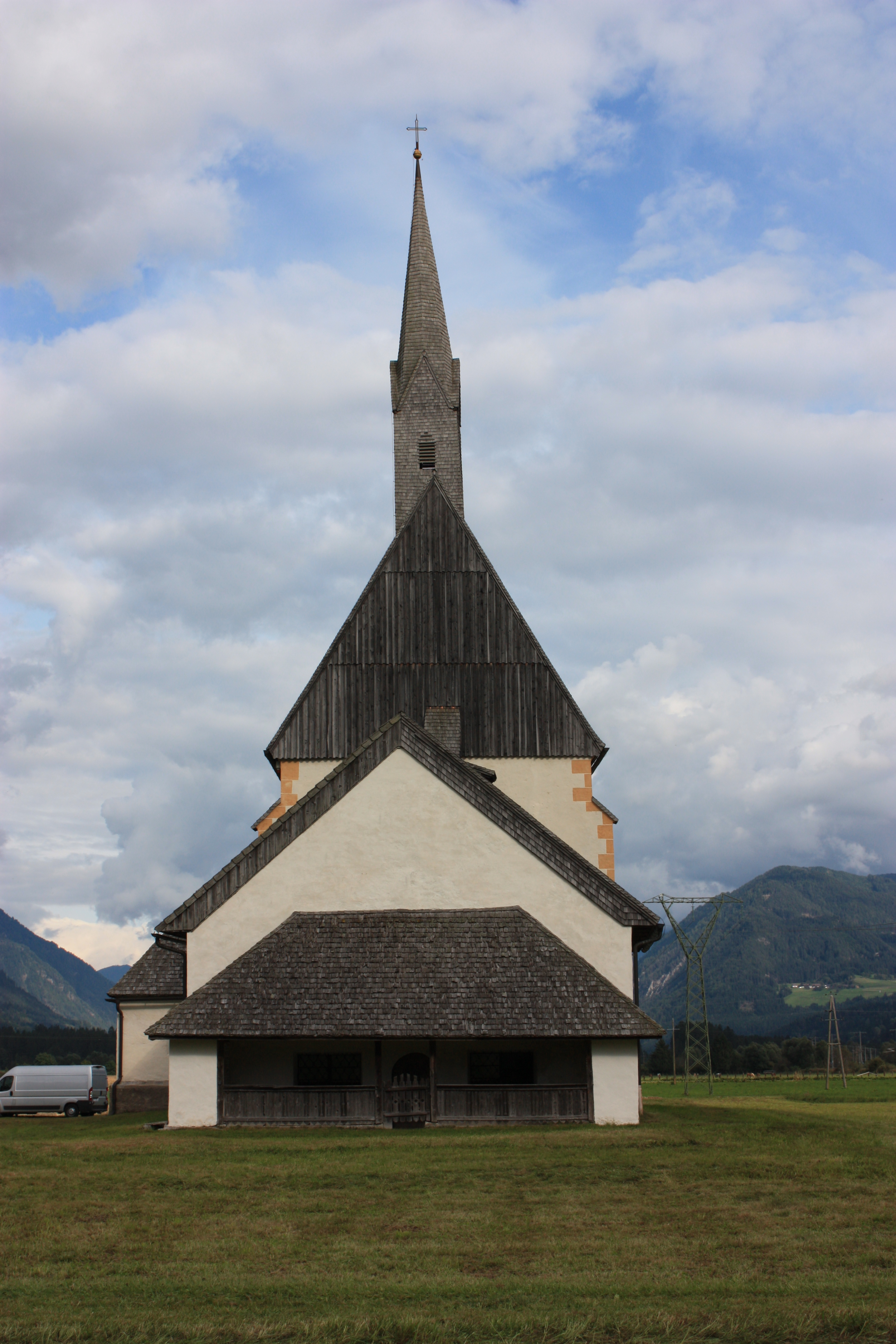 Subsidiary church Saint Athanasius Locality: Berg im Drautal Community:Berg im Drautal